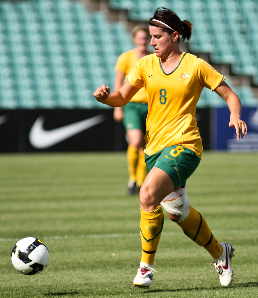 Caitlin Munoz playing for the Australian Women's Football Team against Italy in a friendly international.